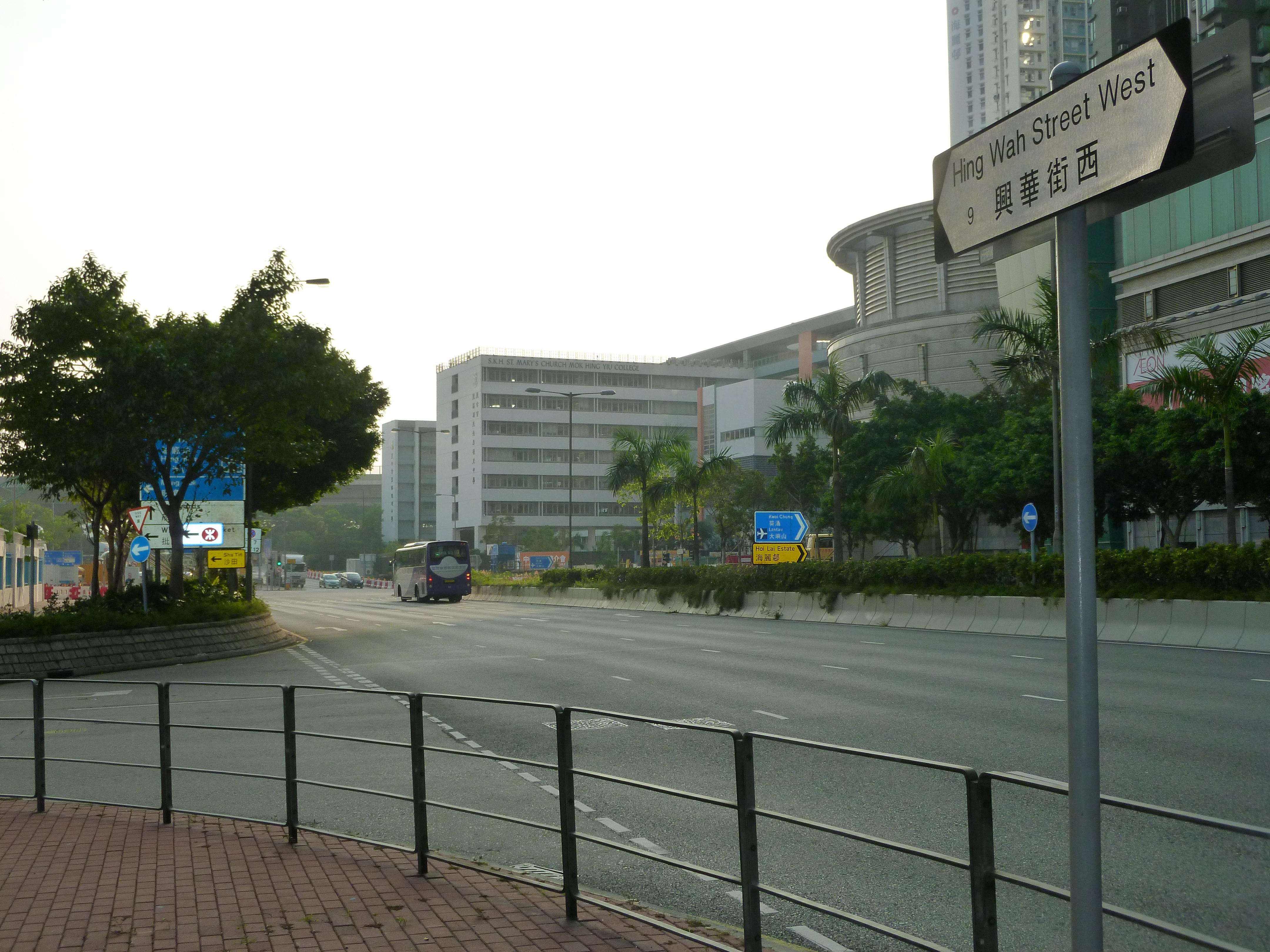 Hing Wah Street West